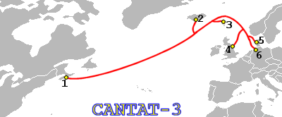 Route of the CANTAT-3, submarine communications cable. For more information regarding numbered landing points, see main article Created by me, using information from: VSNL Map (Flash only)